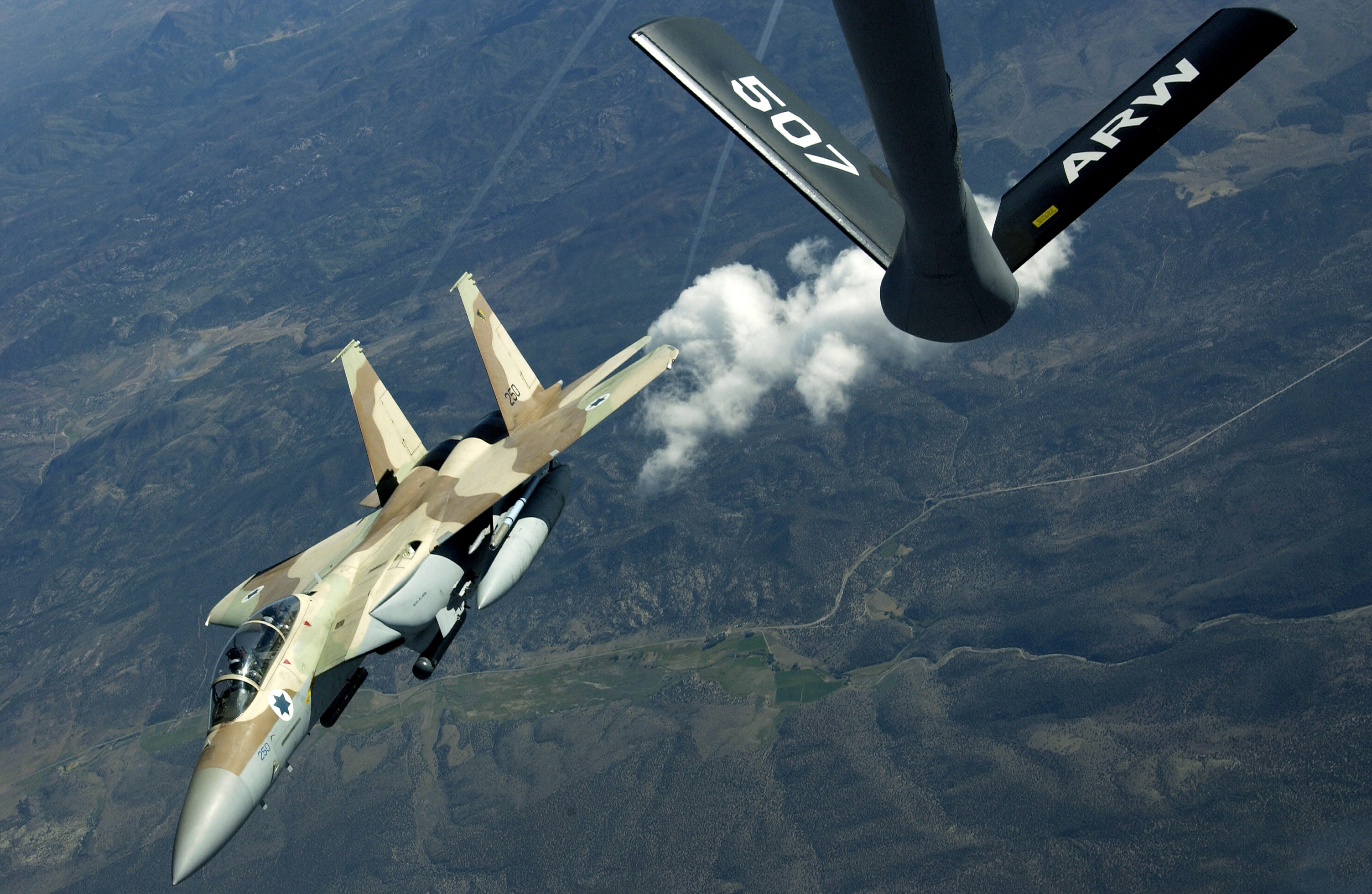 An Israeli Air Force F-15I (Ra'am) from the IDF/AF No 69 Hammers Squadron maneuvers away after receiving fuel from a KC-135 Stratotanker over Nevada's test and training ranges during Red Flag 04-3 Aug 25.